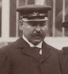 [Collection Jules Beau. Photographie sportive] : T. 14. AnnÃ©e 1901 / Jules Beau : F. 28. [Paris - Brest, [Parc des Princes], 15 aoÃ»t 1901]